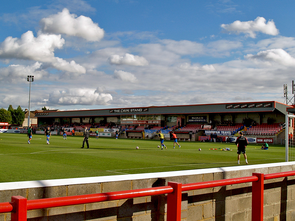 The Carling Stand at the London Borough of Barking and Dagenham Stadium, home of Dagenham & Redbridge FC. Saturday18th October 2008